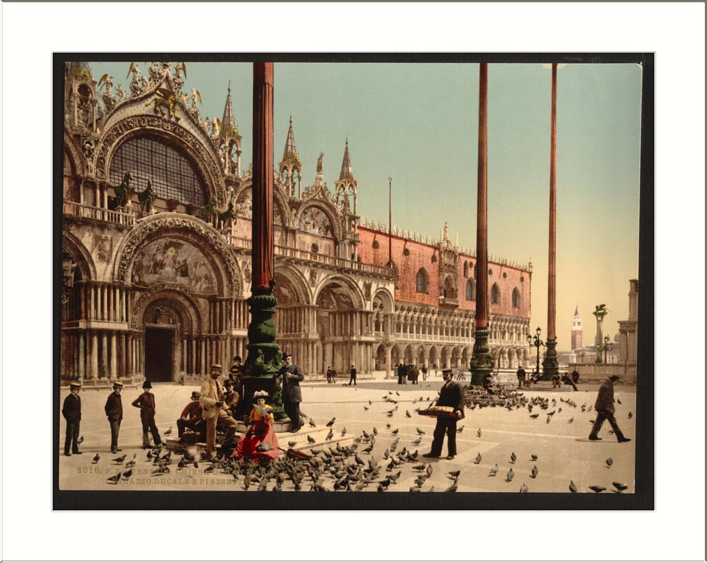 Pigeons in St. Marks Place Venice Italy